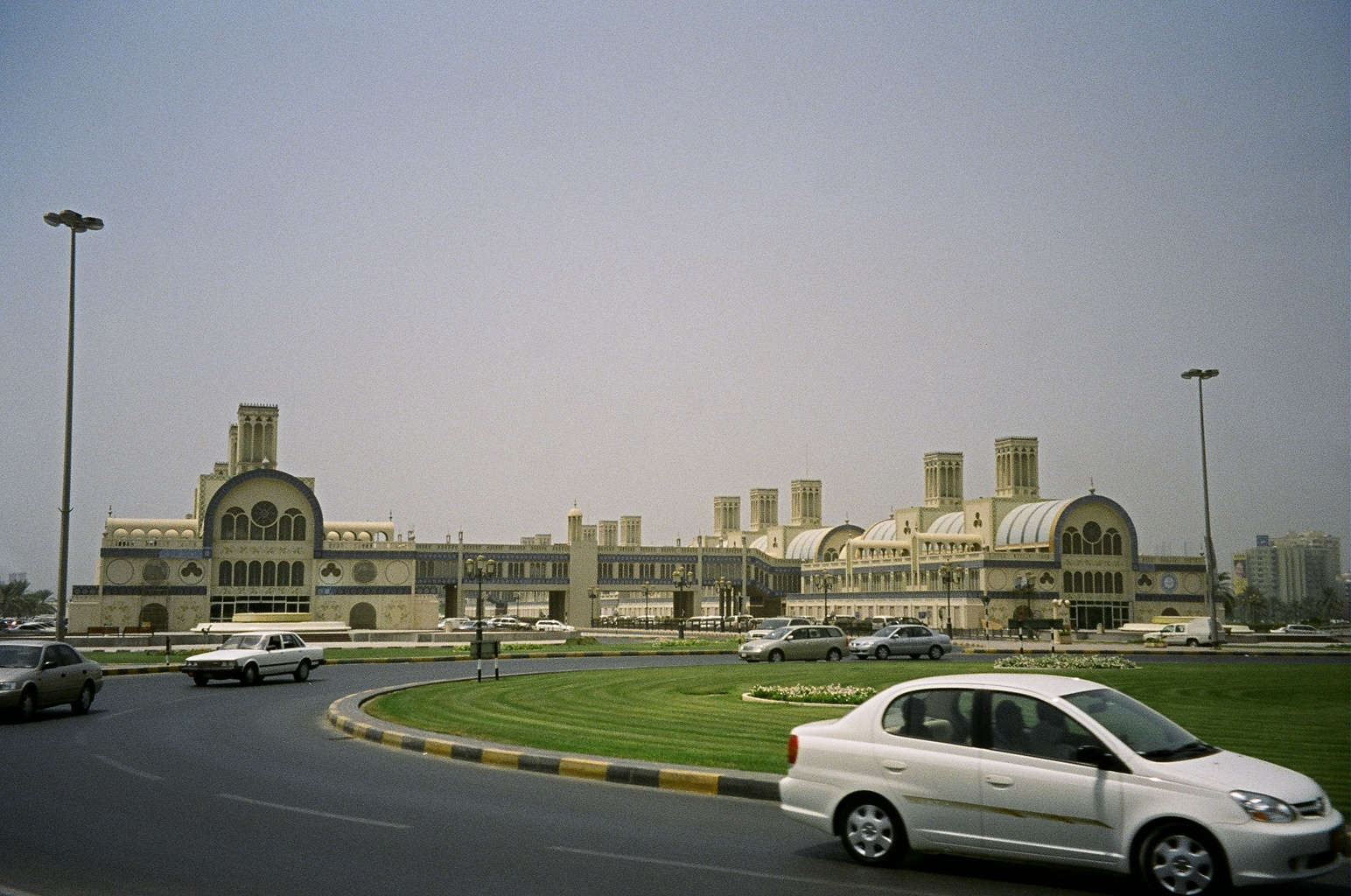 Sharjah central market